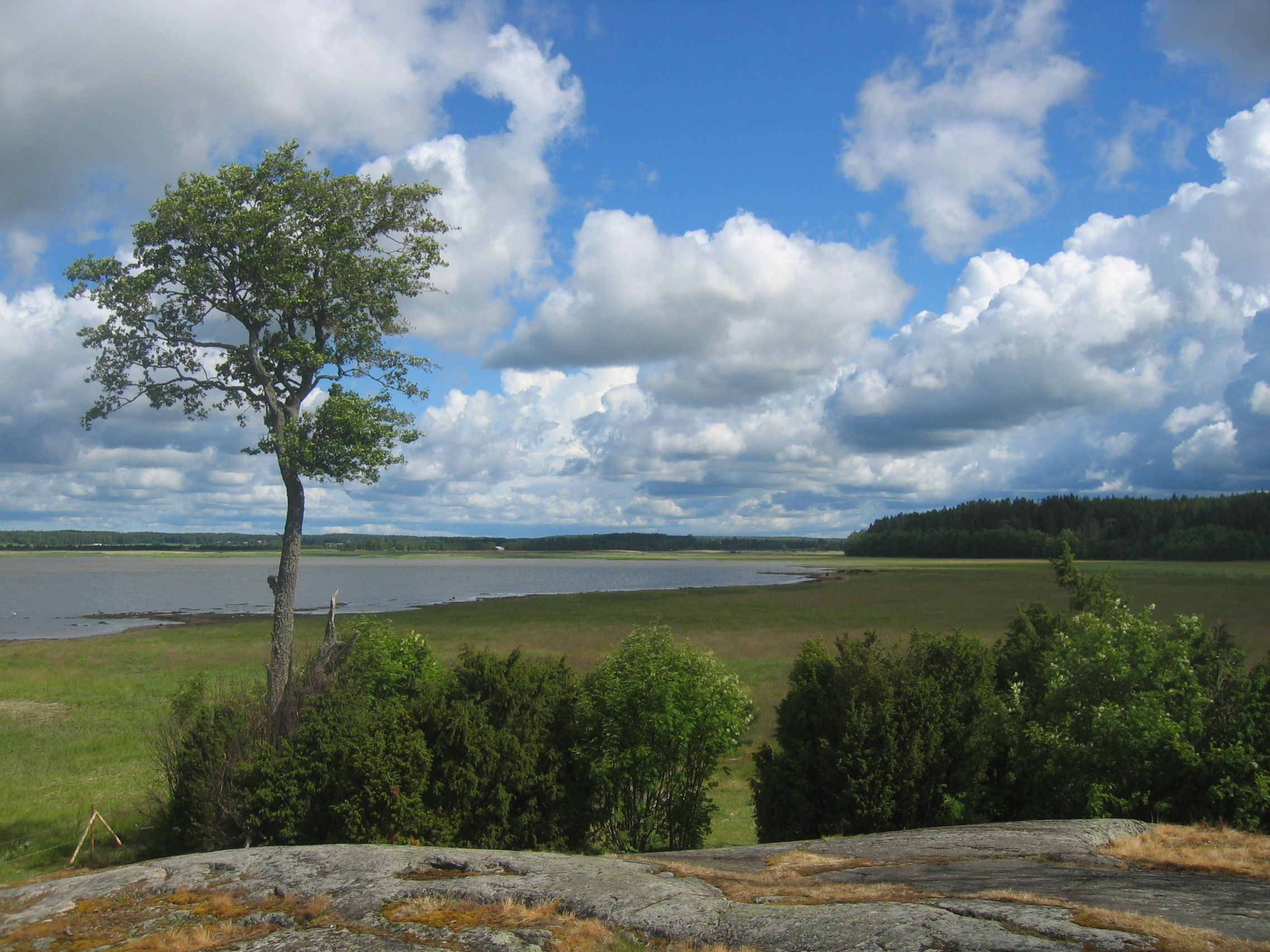 Mynälahti protected area in Mietoinen, Finland. View north from Sillankari